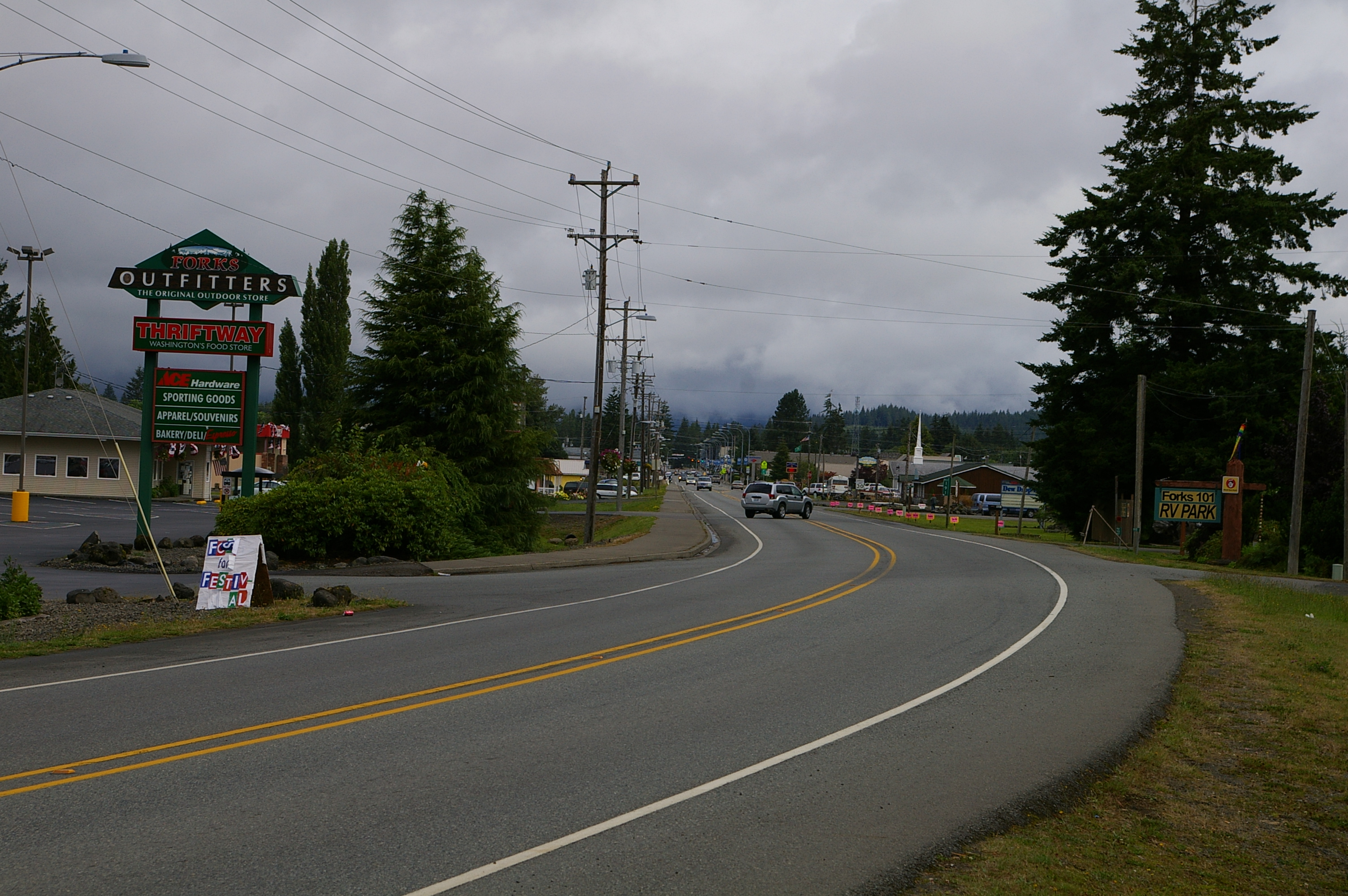 Forks Washington as seen from south side